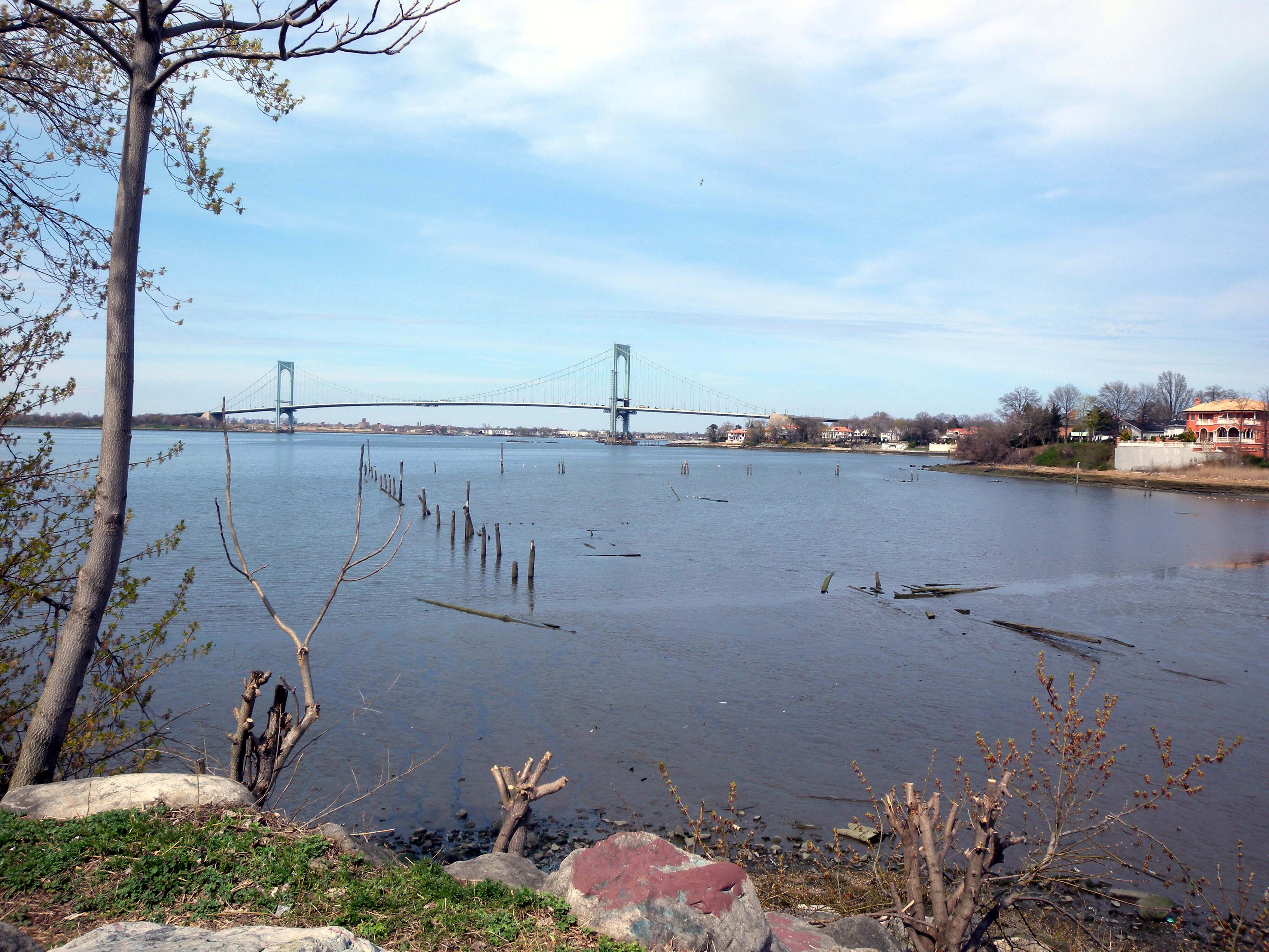 Looking northeast across Powell's Cove at Bronx-Whitestone Bridge on a cloudy midday.